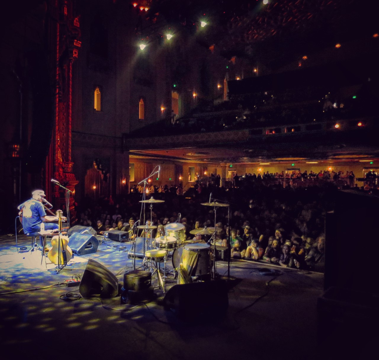 Dylan Walshe at the Fox Theater, Oakland, California. 2017